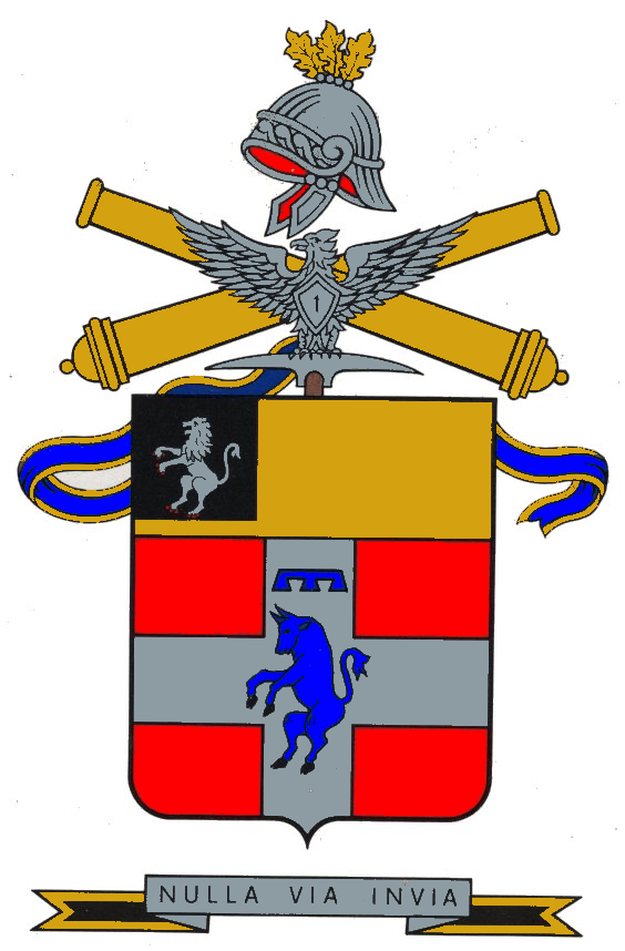 Coat of Arms of the 1º Mountain Artillery Regiment (year 1974); Italian Army.